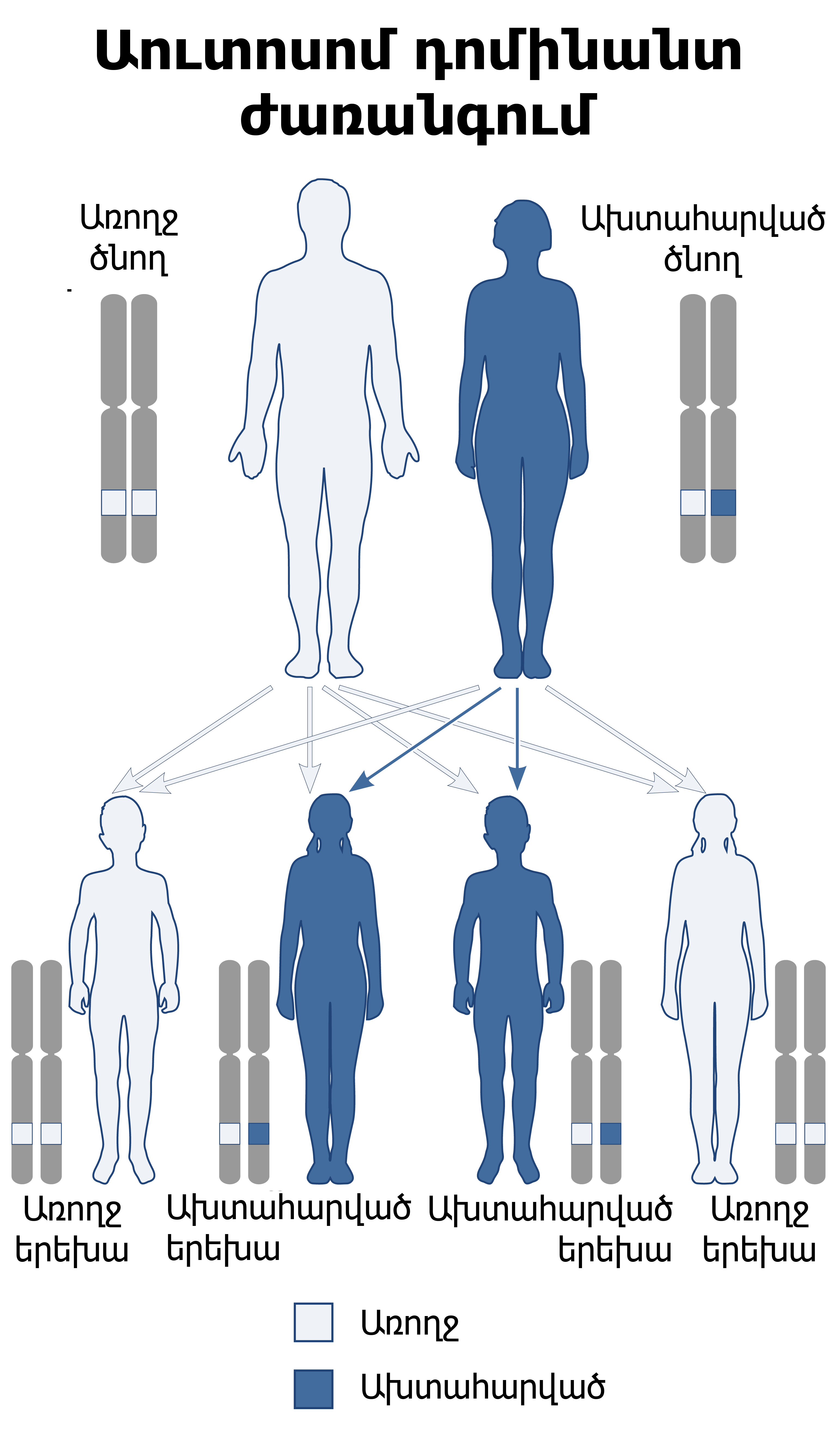 Autosomal dominant - genetics (english version)